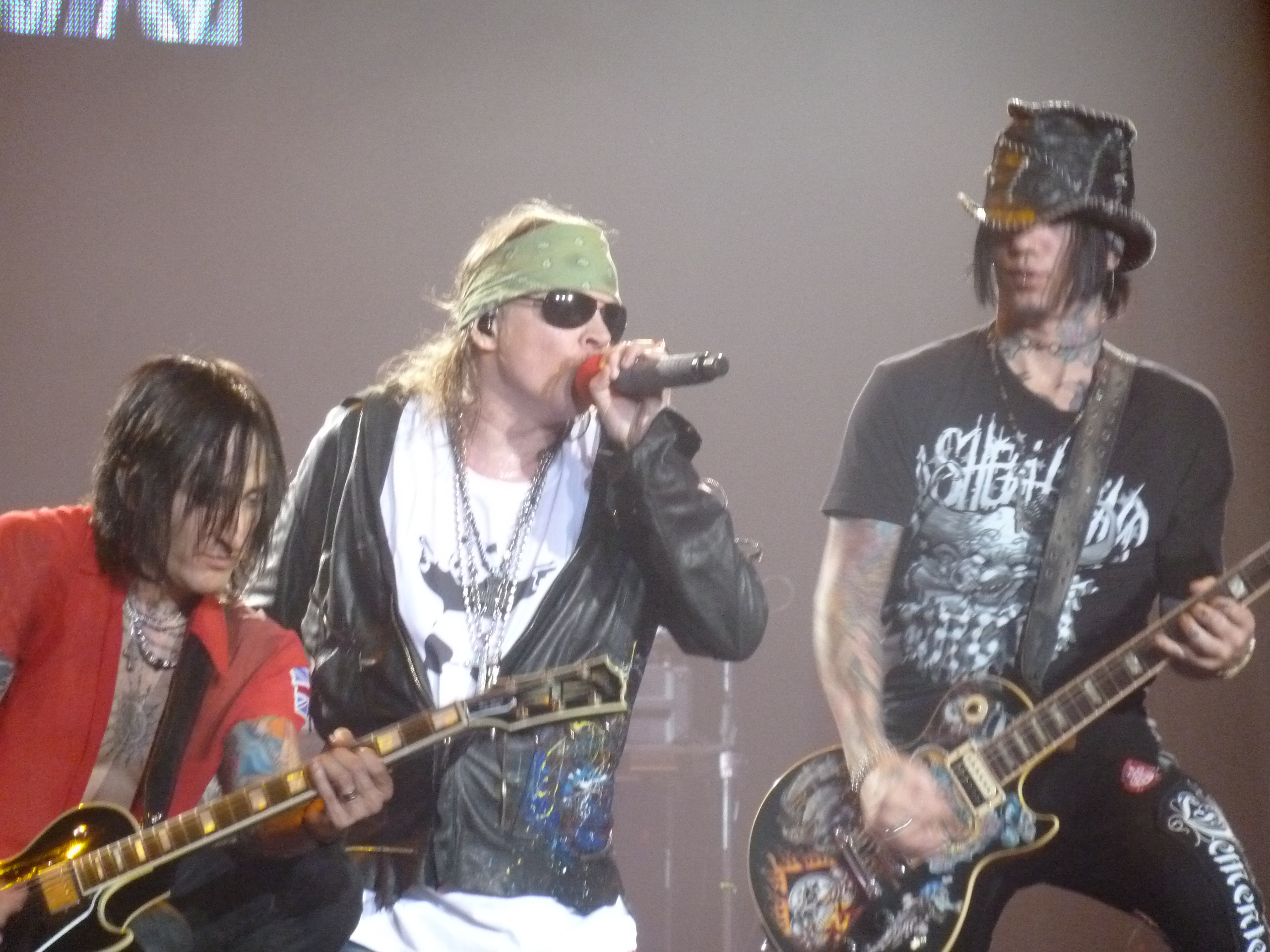 Guns N' Roses playing in Chile in 2011